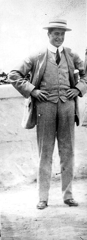 "Maurice Roche" An undated image, from the Bain News Service, believed to be of Maurice Roche, 4th Baron Fermoy. Edited down to remove blank frame; image itself as originally composed.